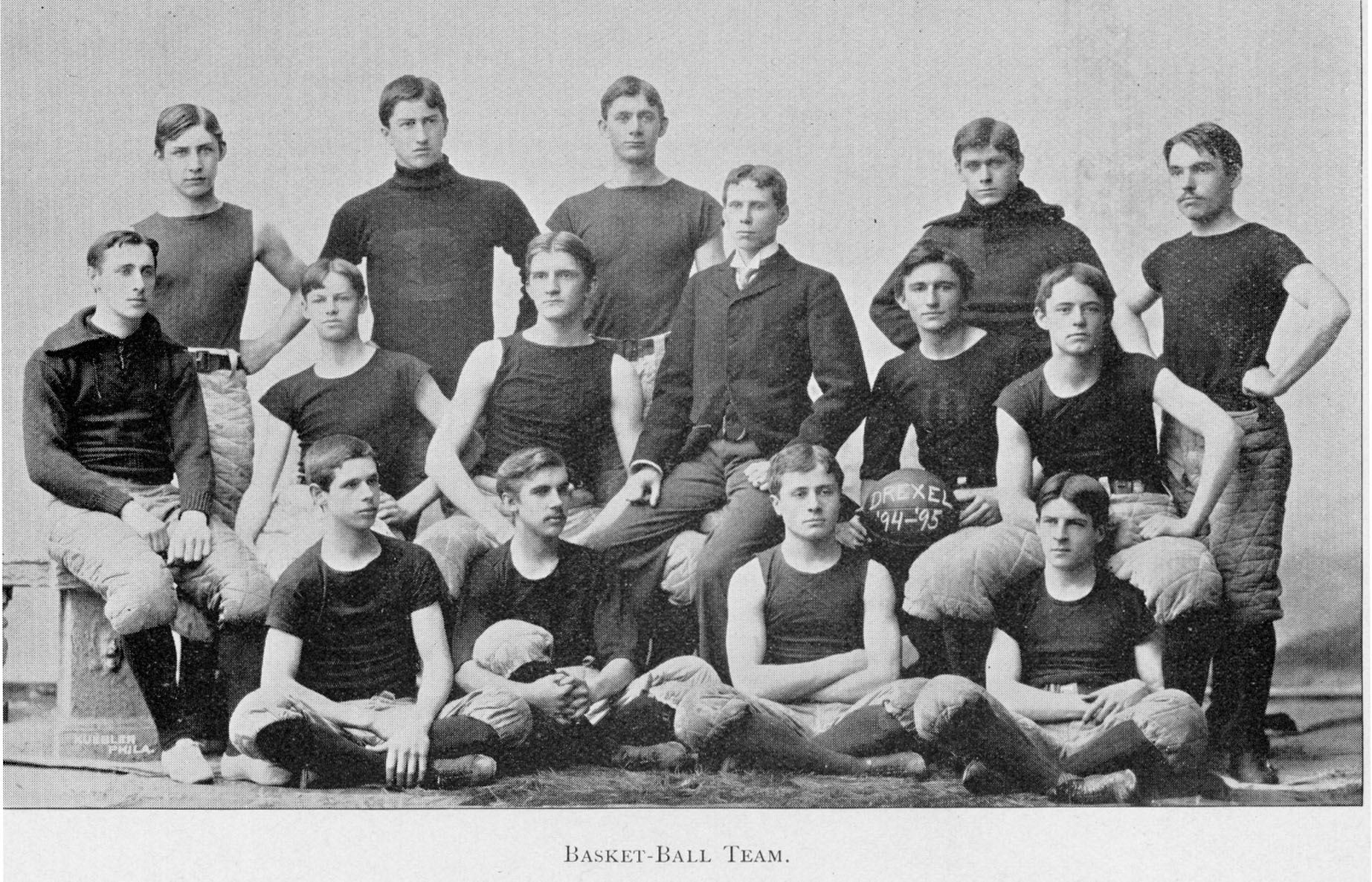 The Drexel Dragons basketball team circa 1895.